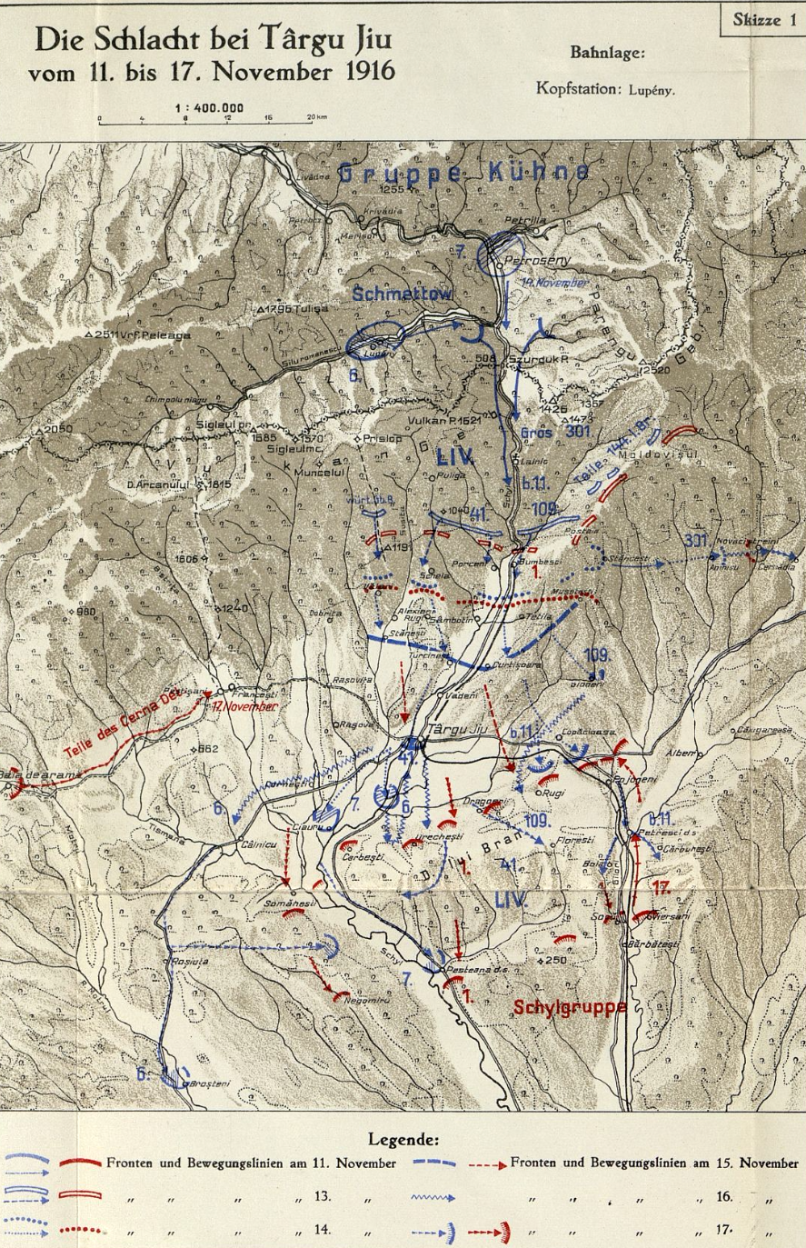 Romanian Front in WWI - The second battle from Valea Jiului, 1916